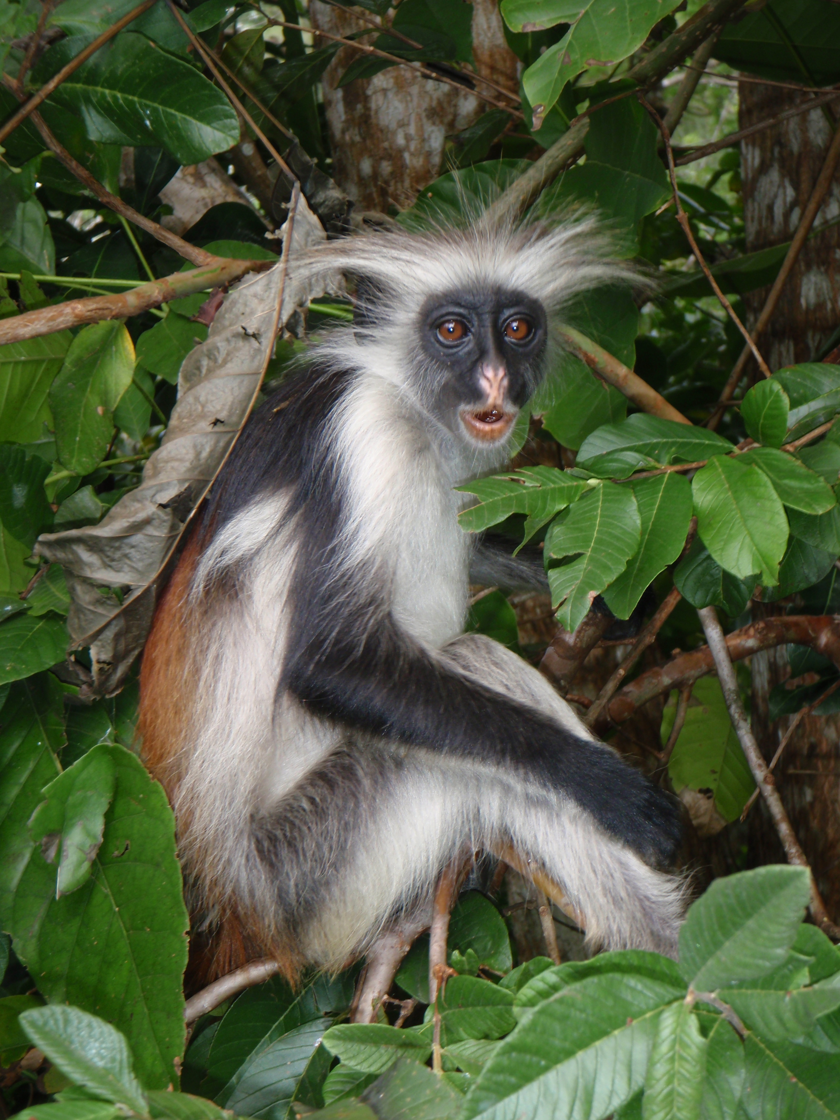 Red Colobus monkey in Jozani forest. Endemic to Zanzibar.